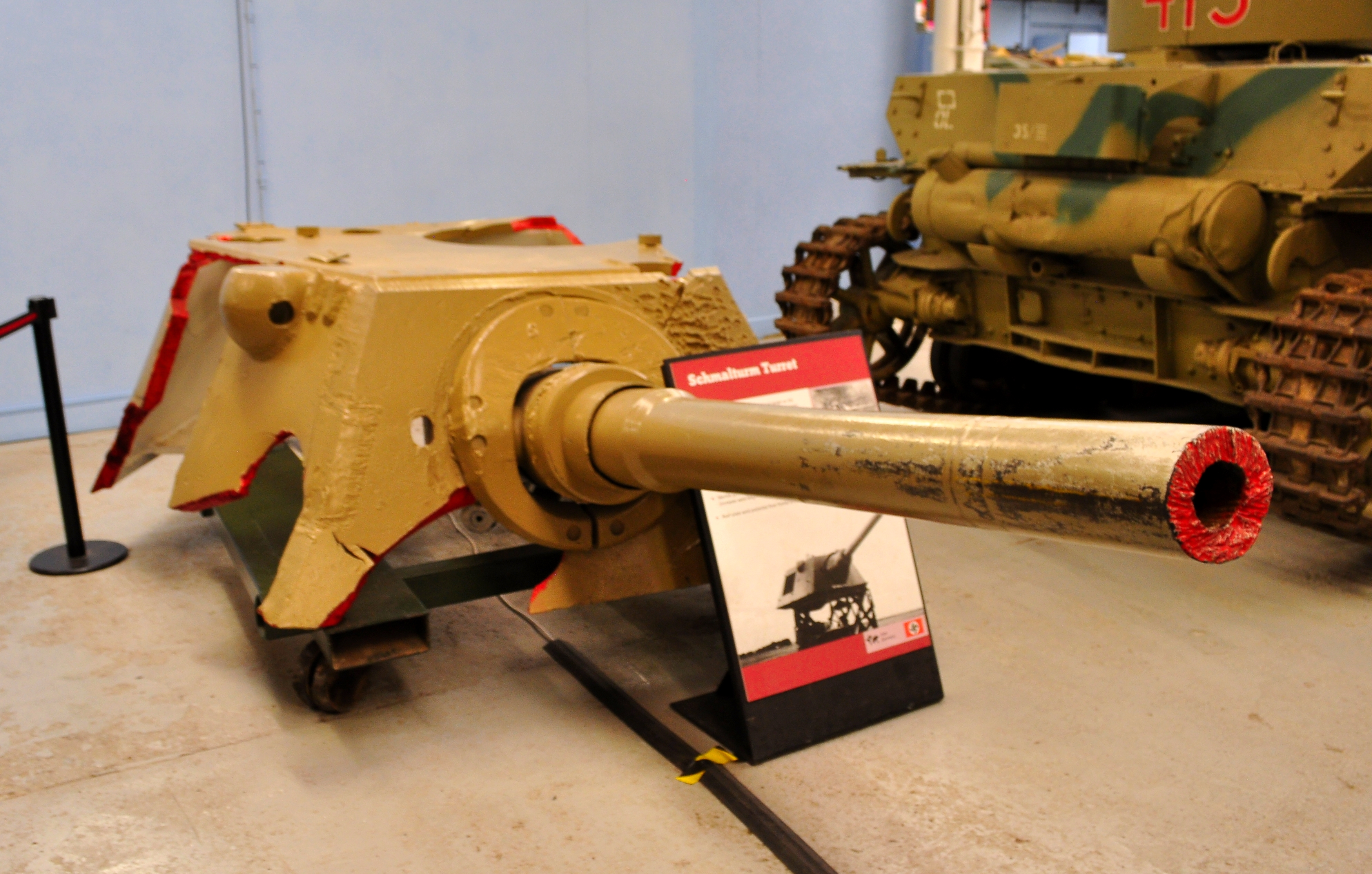 Schmalturm from a Panzer V at the Tank Museum, Bovington